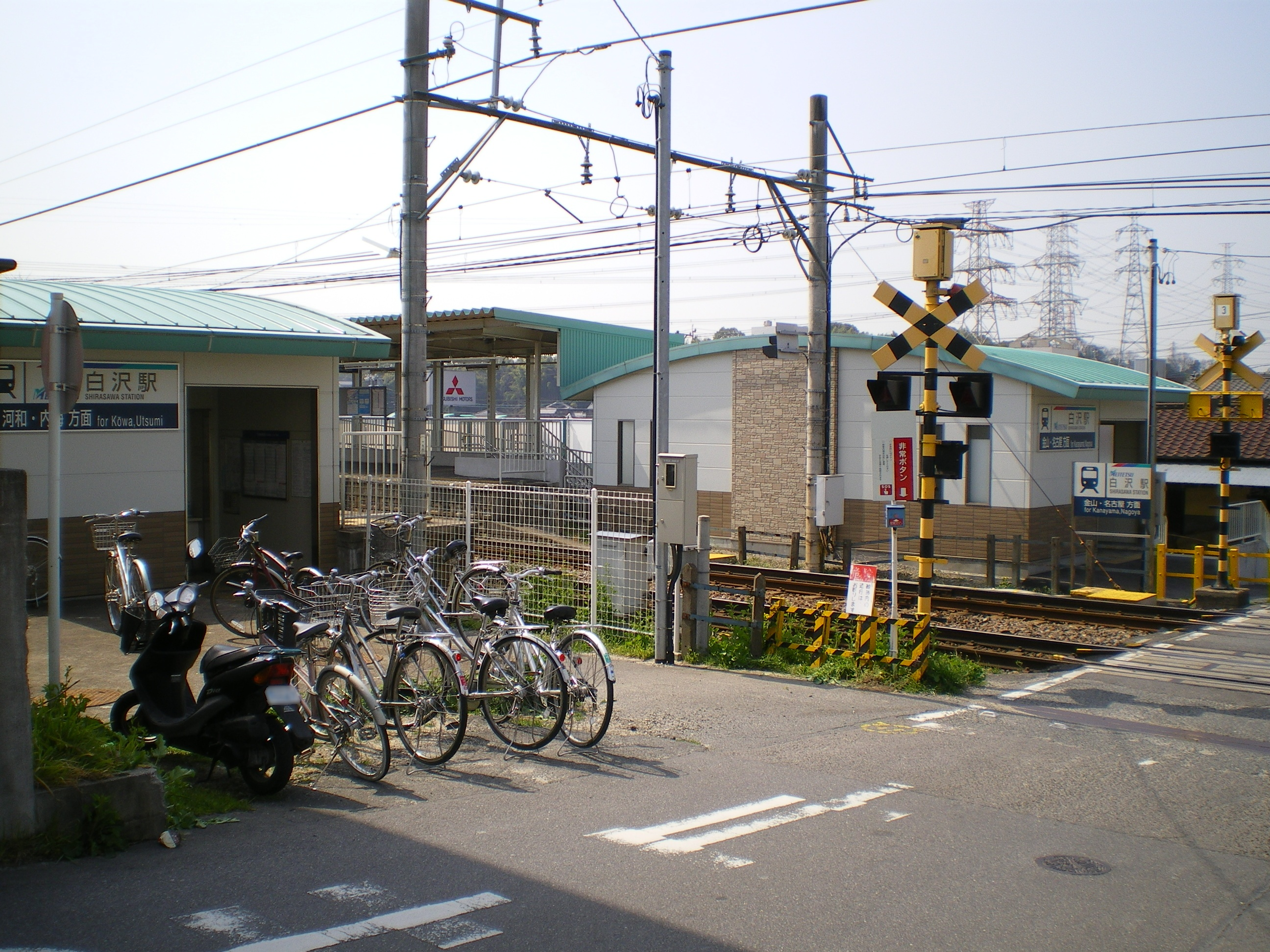 Nagoya Railroad Kowa Line Shirasawa Station Building